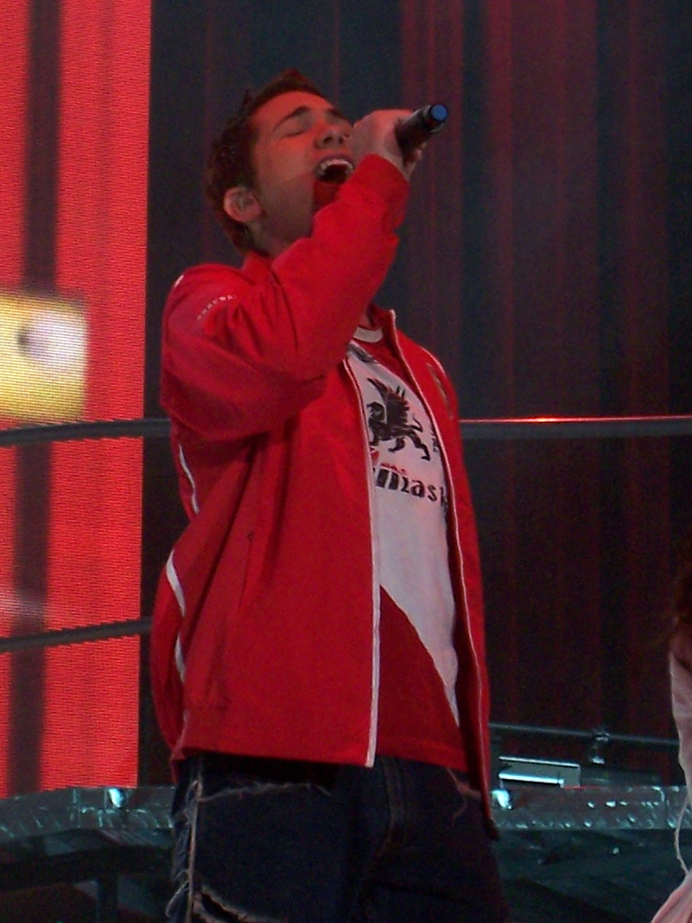 Start of Something New